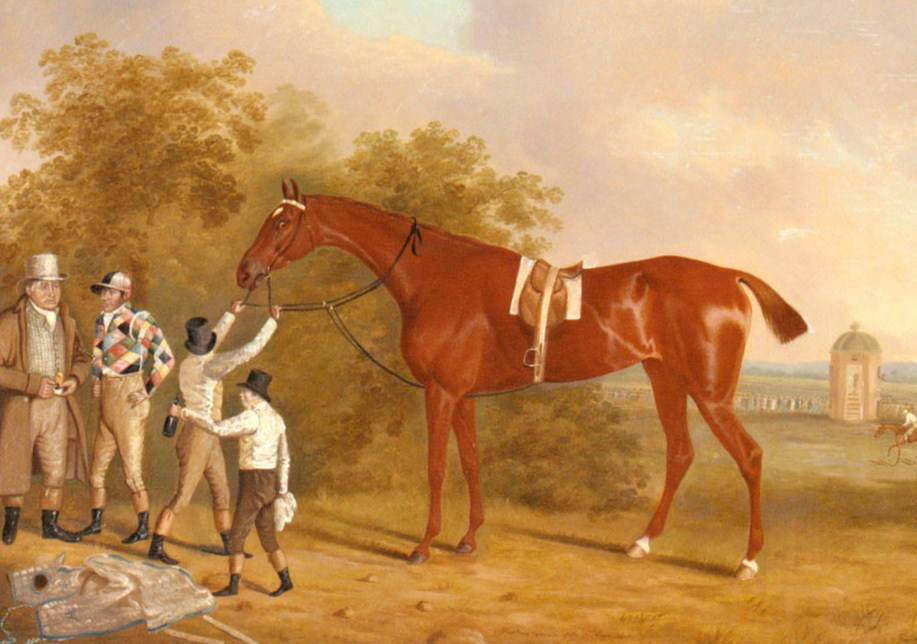 Painting of the racehorse Altisidora ca. 1813 by Clifton Tomson. Artist dead for over 100 years.